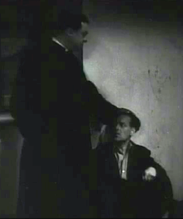 fermo immagine del film Roma città aperta